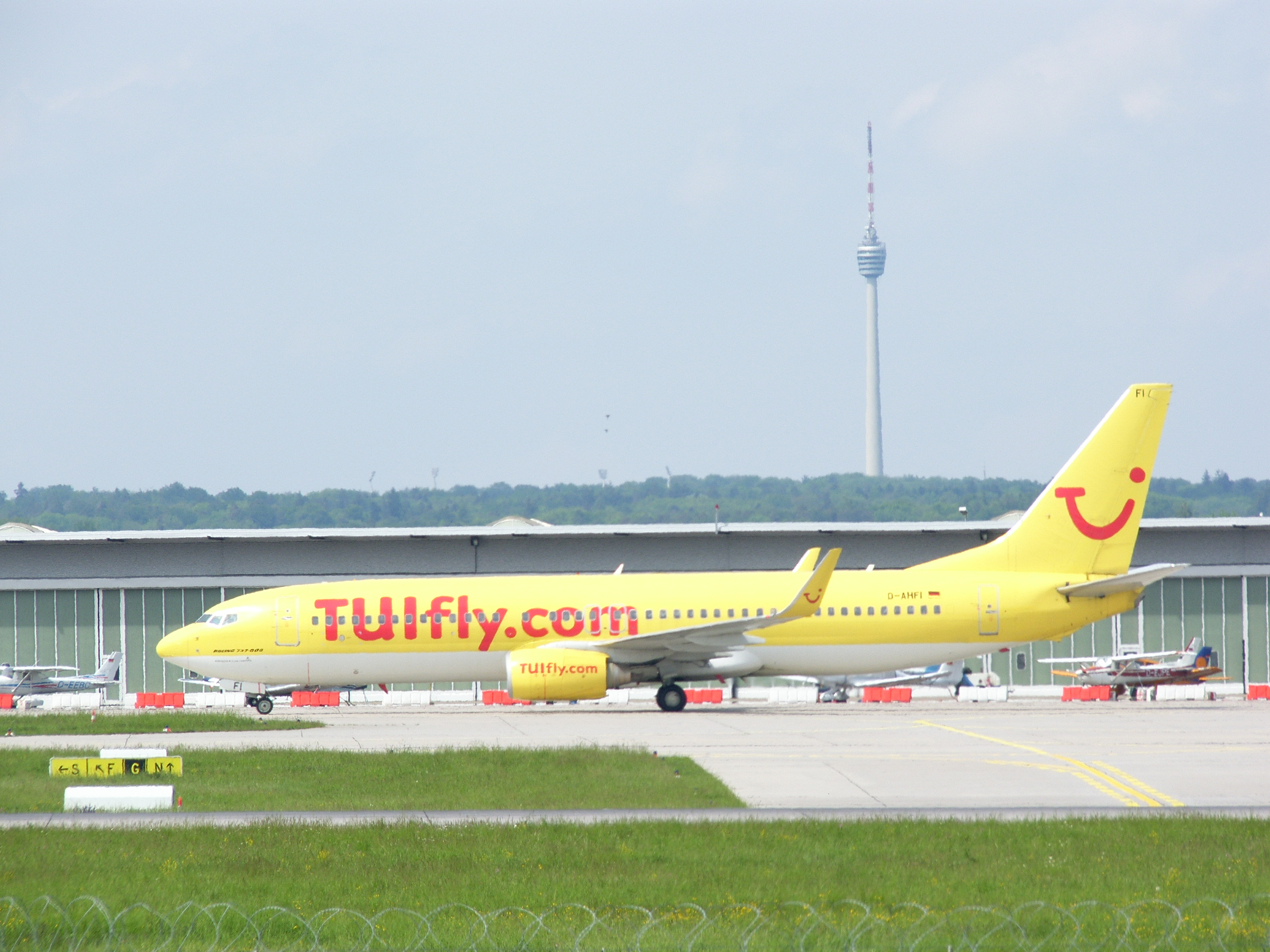 Good shot of this plane with the TV in the background